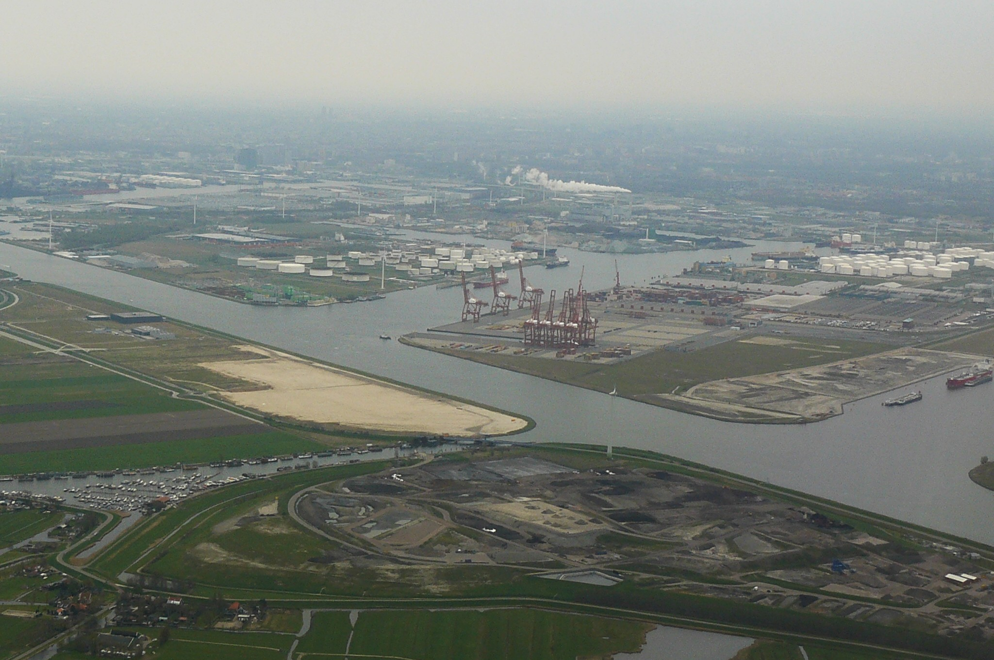 Amerikahaven of Port of Amsterdam. Photo taken from aircraft on April 8th, 2012, looking southeast.Unknown